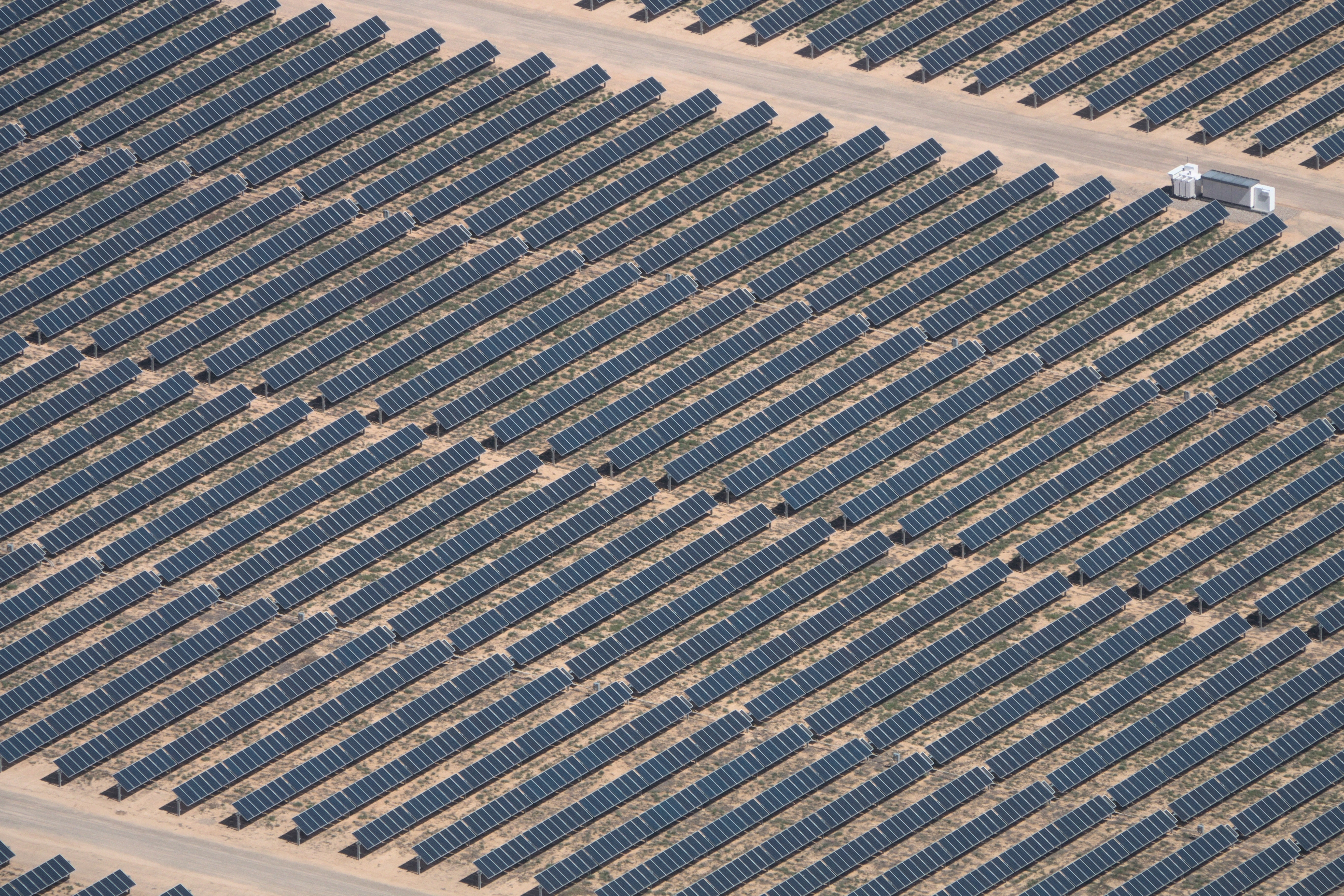 Aerial view of Three Cedars Solar Project, Cedar City, Utah